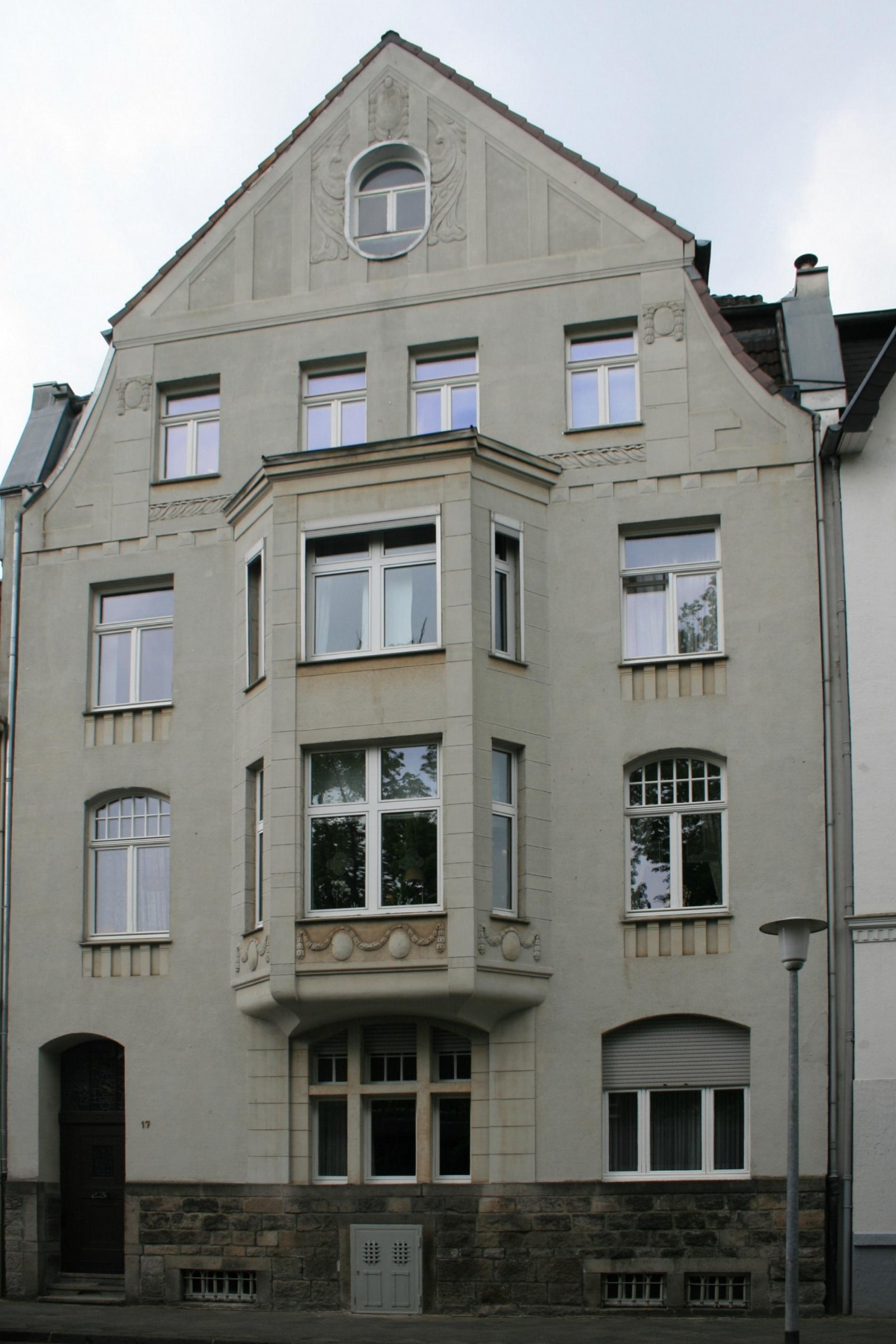 Cultural heritage monument No. B 141 in Mönchengladbach